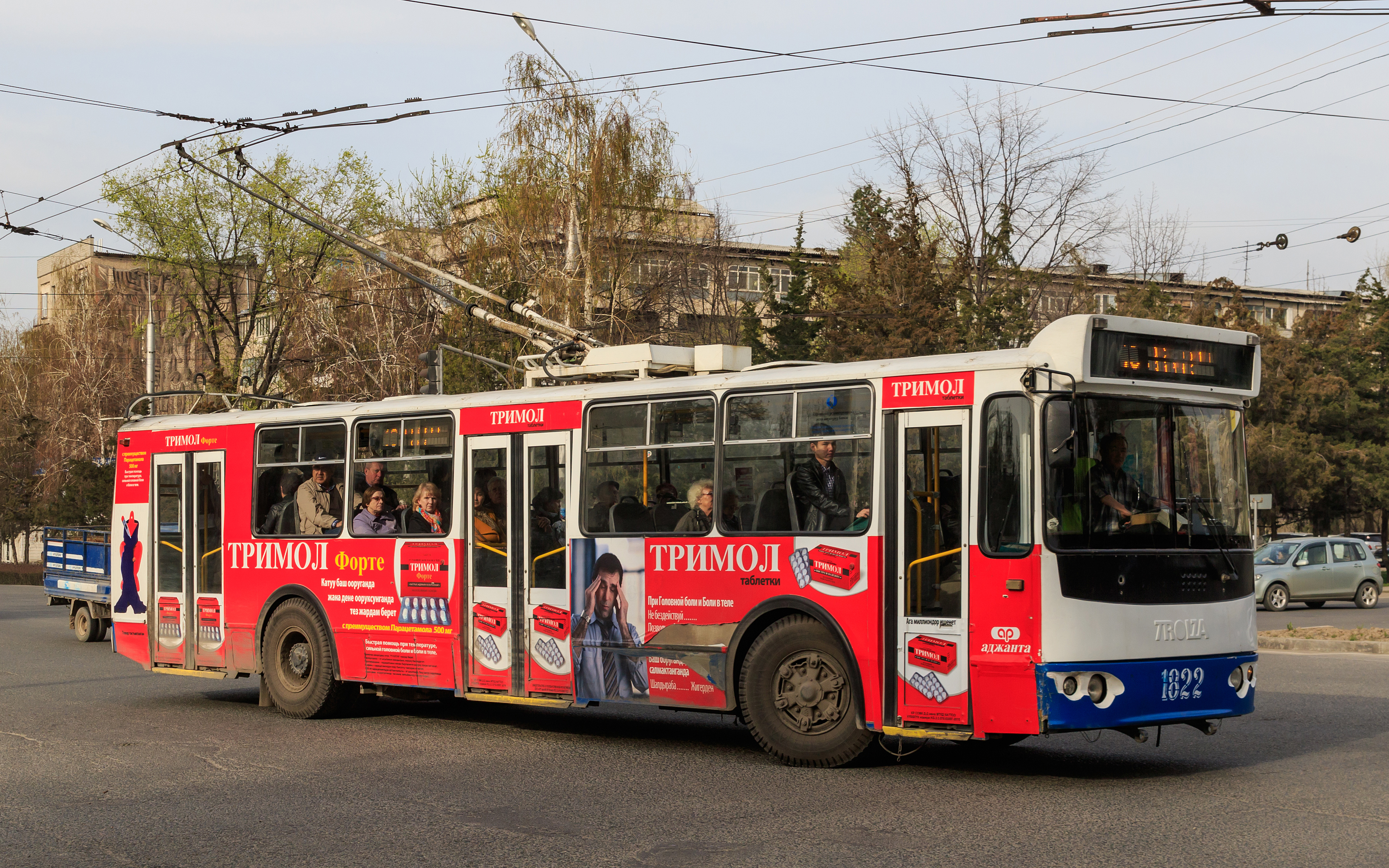 A trolleybus near the Victory Park in Bishkek, Kyrgyzstan